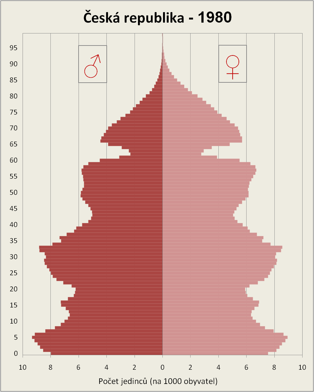 Population pyramid for Czech Republic in 1980 - age structure as of first July, relative data